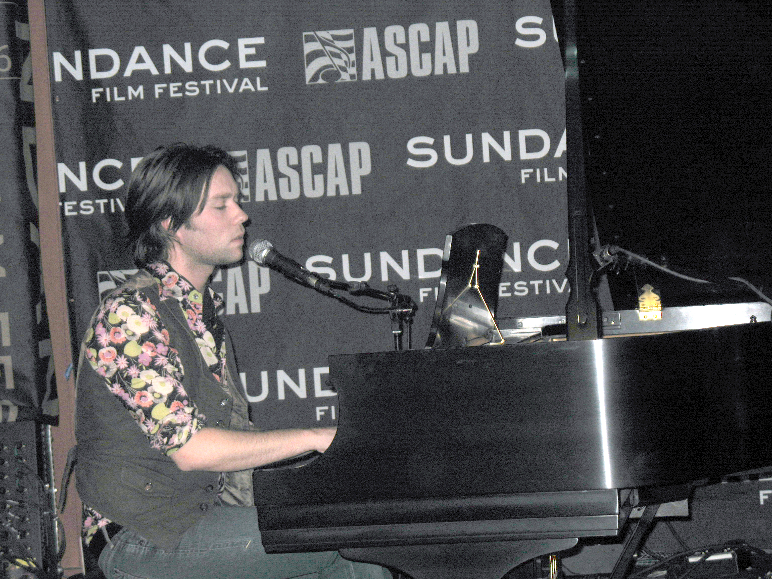 Rufus Wainwright at the Sundance film festival